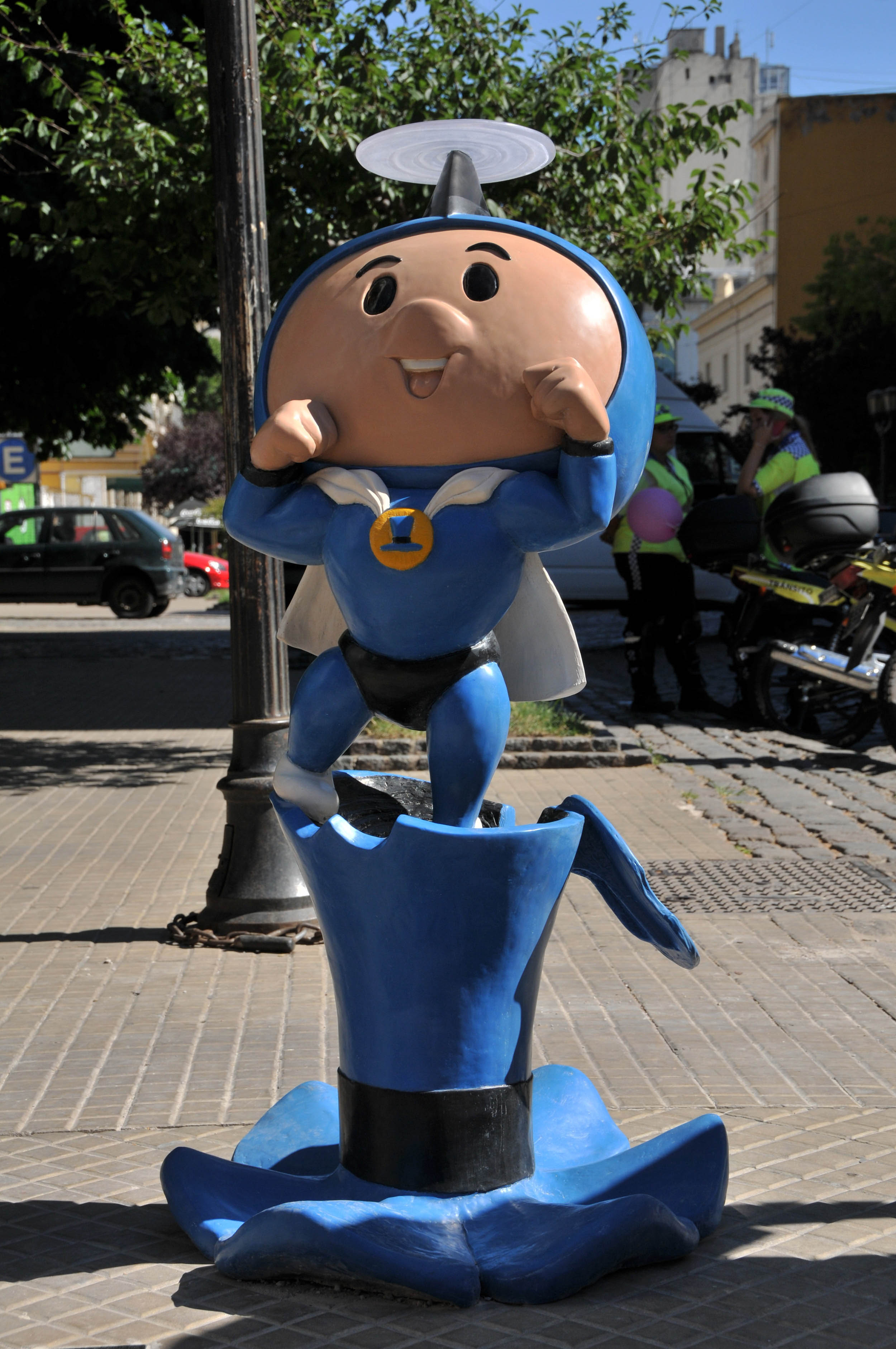 Statue of Súper Hijitus, a popular comic character of Argentina created by Manuel García Ferré, that has also starred its own TV show in the 1960s. The statue is located in the "Paseo de la Historieta" of Buenos Aires.